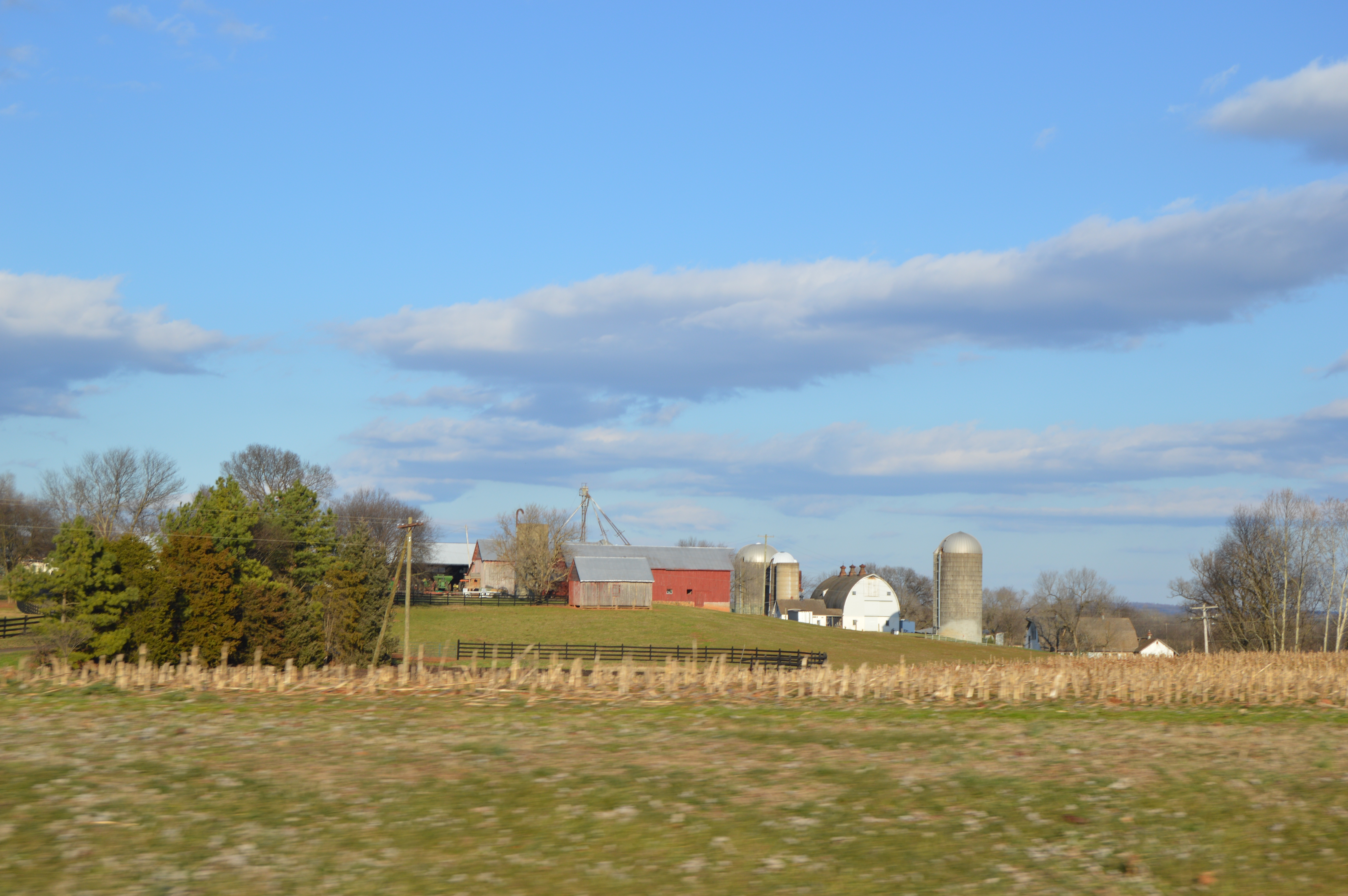 Fields at the Hampstead Farm, located along Scuffletown Road northwest of Somerset in Orange County, Virginia, United States. Dozens of archaeological sites have been found on the farm, much of which has been designated a historic district and listed on the National Register of Historic Places.